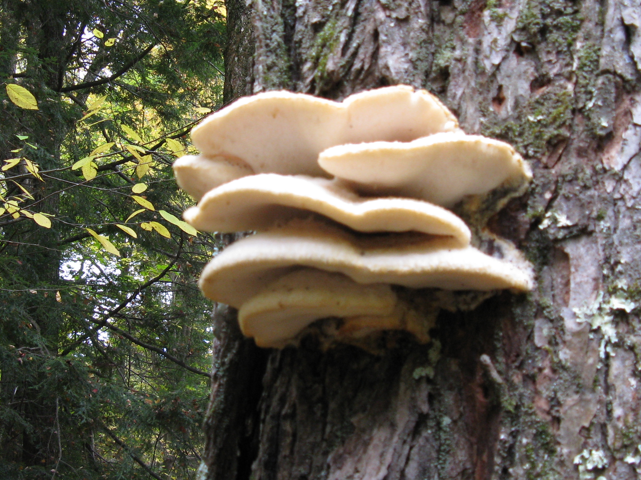 Fungus 'Climacodon septentrionale'